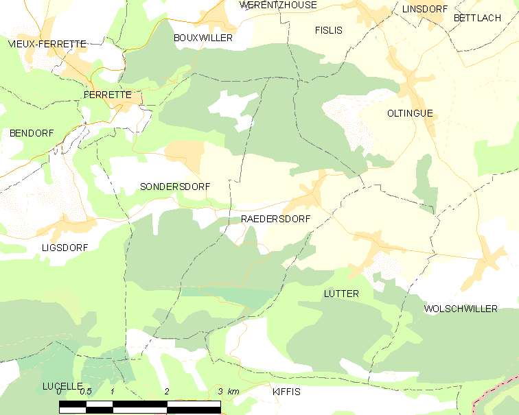 Map of French municipality